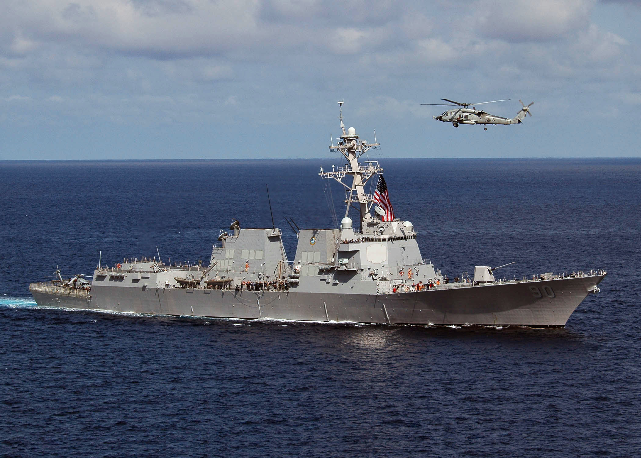 Pacific Ocean (Mar. 14, 2005) - An HH-60H Seahawk assigned to the "Indians" of Helicopter Anti-Submarine Squadron Six (HS-6), flies over the guided missile destroyer USS Chafee (DDG-90) during exercises off the coast of southern California. Chafee is currently conducting a Joint Task Force Training Exercise (JTFEX) with Carrier Strike Group Eleven (CSG-11).